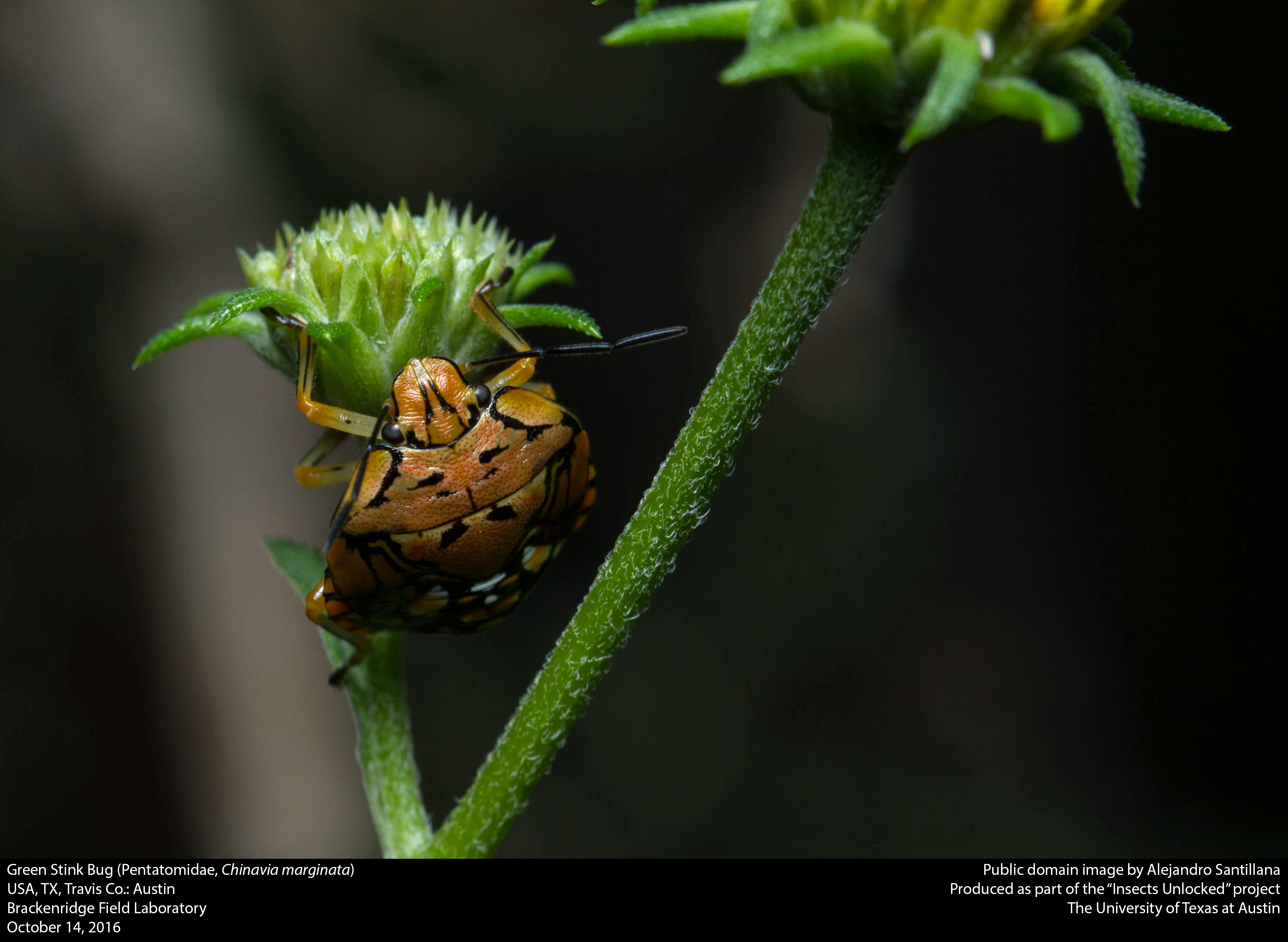 USA, TX, Travis Co.: Austin Brackenridge Field Laboratory 14-x-2016